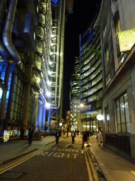 A view down Lime Street, London